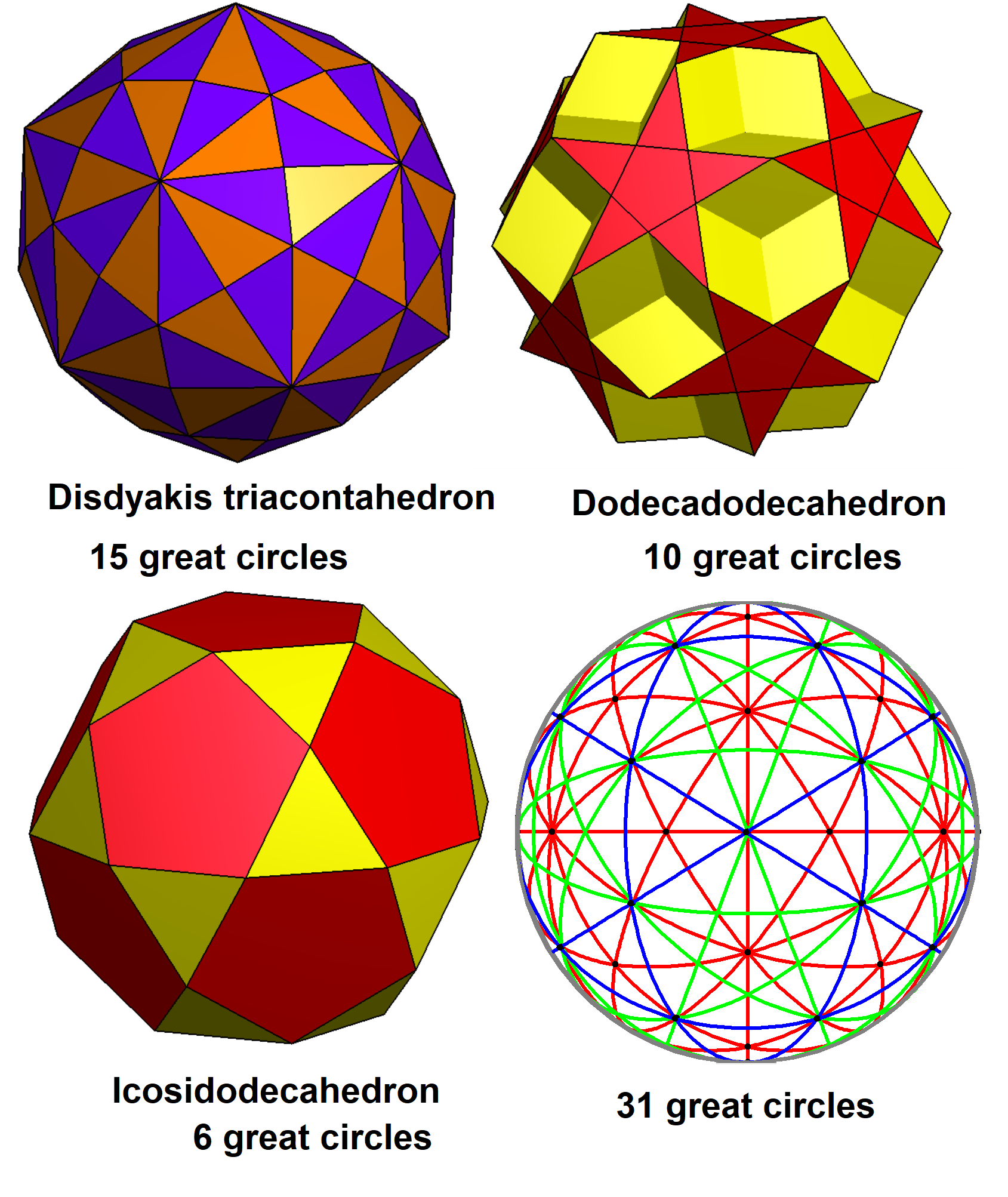 Fuller's 31 great circle model is seen in the edges of 3 polyhedra.